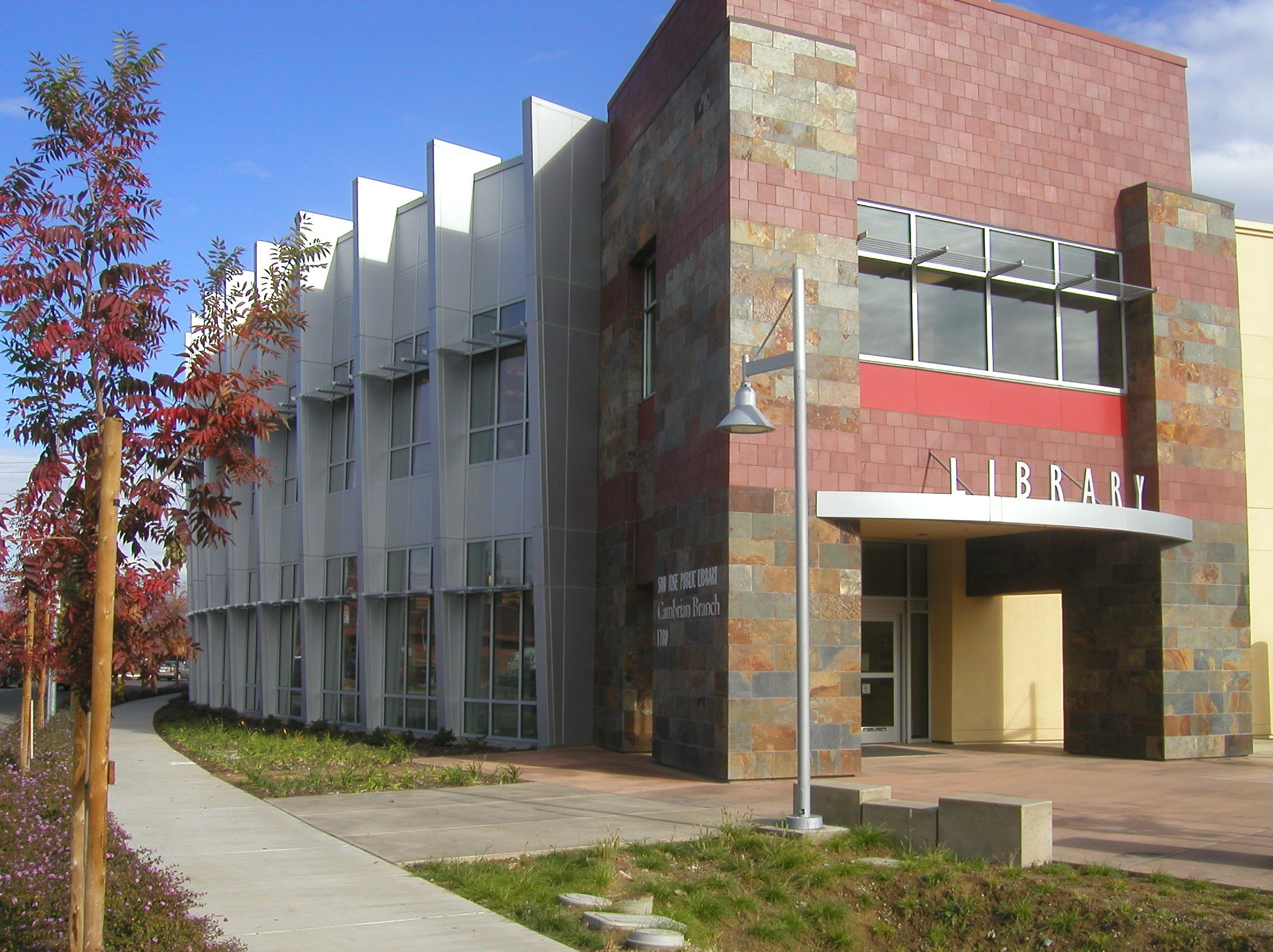 Cambrian Branch of the San Jose Public Library